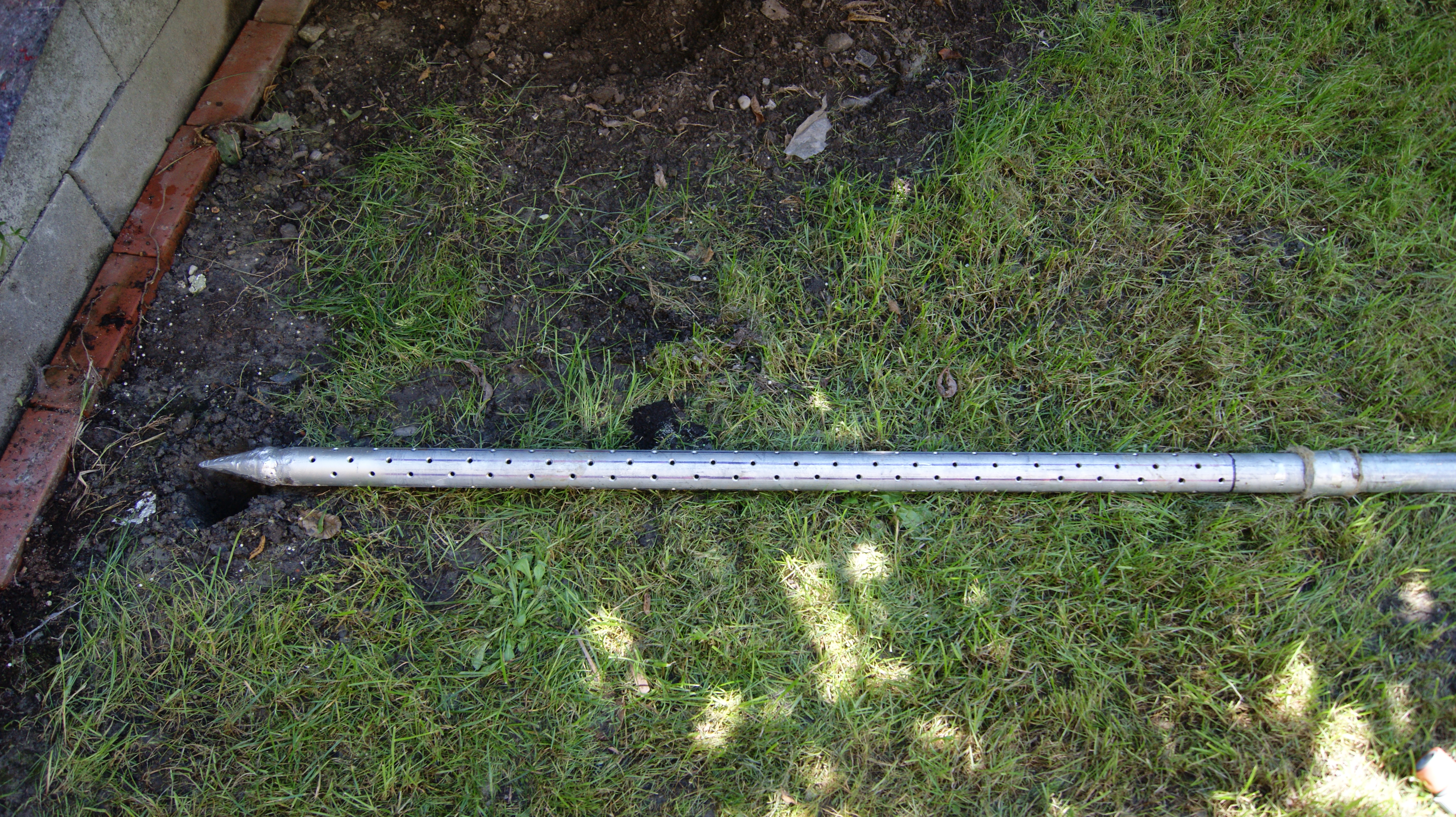 Establishing a Abyssinian well in Dornbirn, Vorarlberg, Austria in 2015 for garden irrigation. The pipe with the holes and the ram tip.